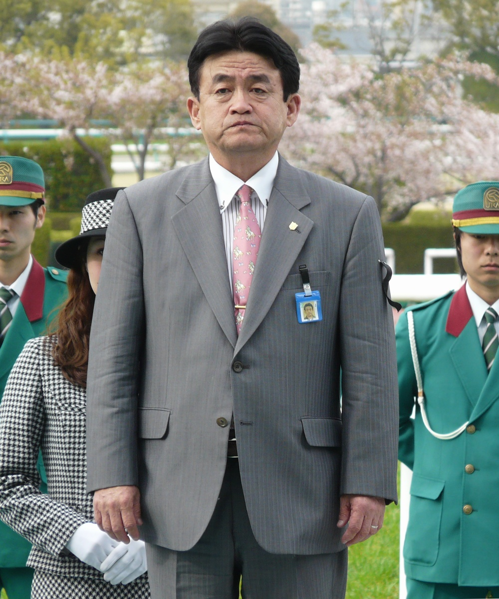 Masato-Nishizono20110417